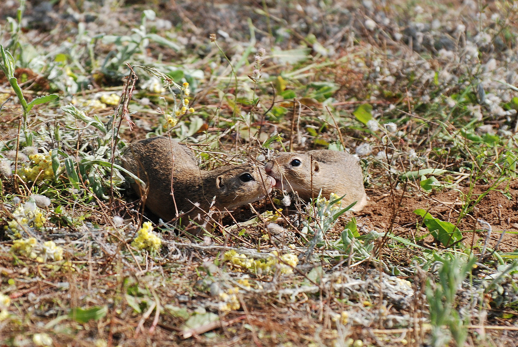 Two European ground squirrels (Spermophilus citellus) from Głębowice - Lower Silesian Voivodeship (Poland)